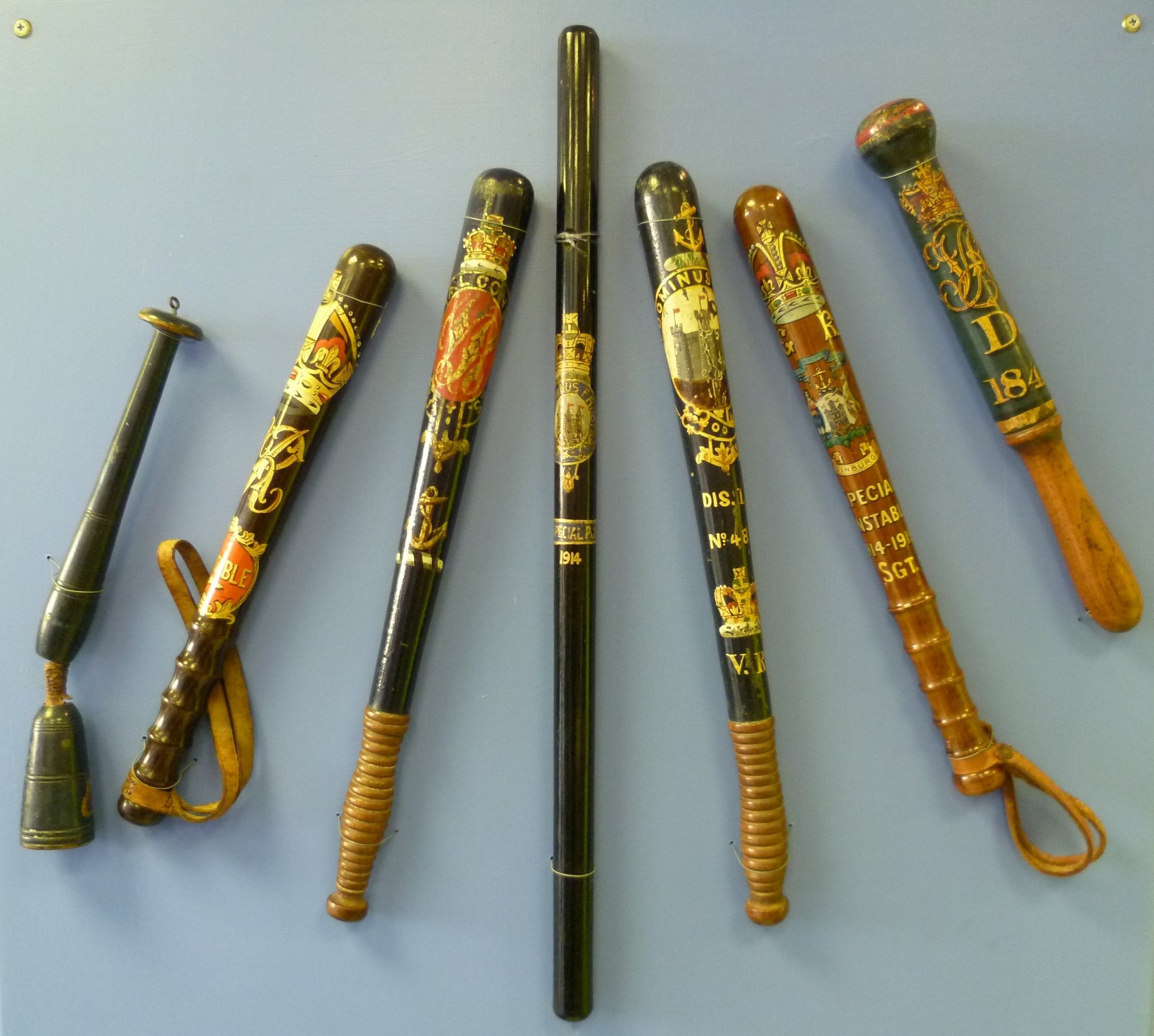 Police truncheons from the Victorian period. An exhibit in the Edinburgh Police Centre Museum.